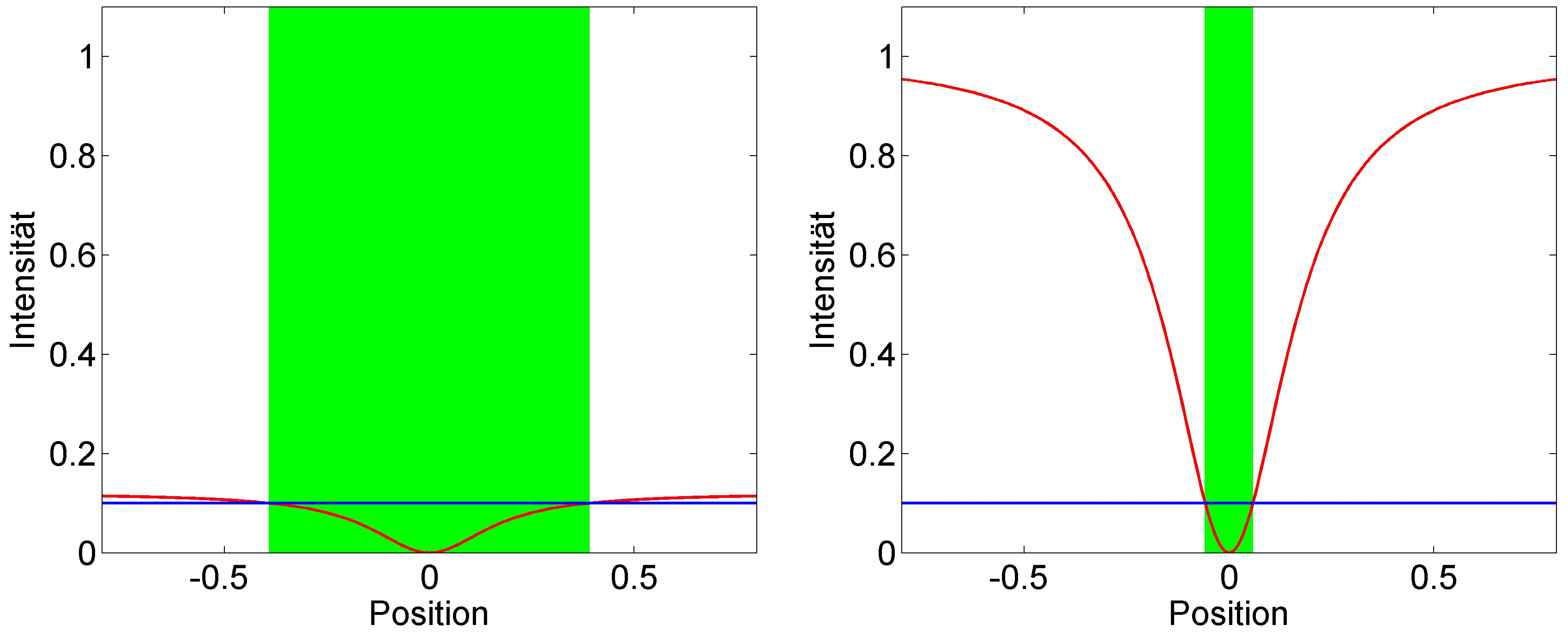 Principle of resolution increase in a RESOLFT microscope. Horizontally a spatial dimensions is drawn. The red line corresponds to the spatially variable intensity of the light beam which drives molecules from a certain state (green) to another state (white). The blue line describes the level of saturation for this transition. Increasing the brightness (right side) of the light beam one can restrict the area, where molecules can reside in their original state (green) to arbitrarily small volumes.